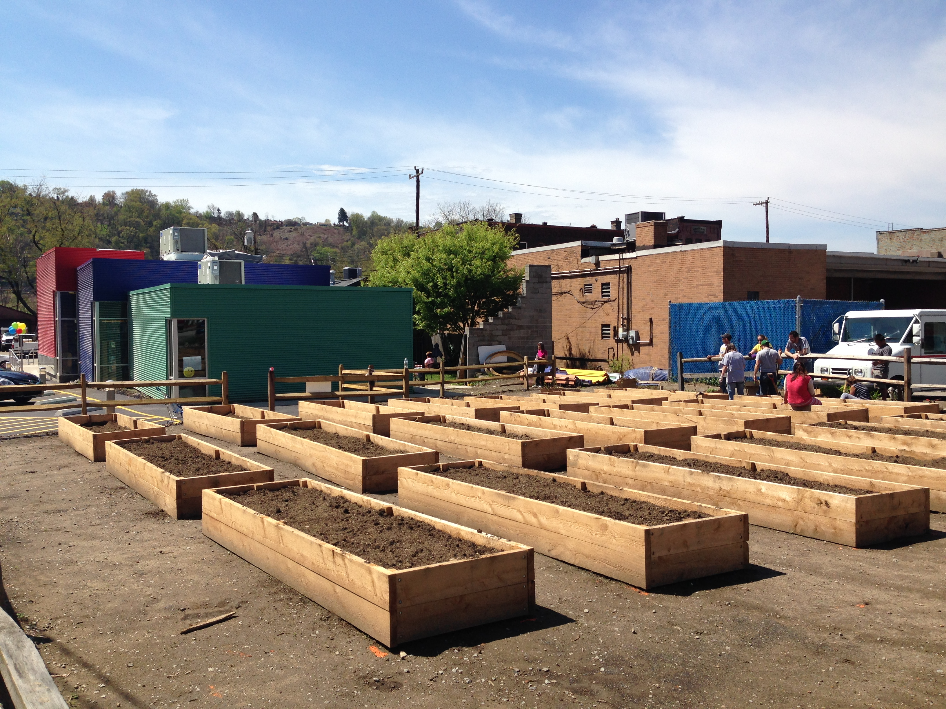 Sharpsburg Community Garden